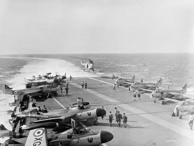 A Westland Whirlwind helicopter taking off from the Royal Navy aircraft carrier HMS Albion (R07) to stand by for emergency rescue operations as the ship turns into the wind to fly off her aircraft on a strike. Visible on deck are De Havilland Sea Venoms of 809 Naval Air Squadron, and Hawker Sea Hawks from 800 and 802 NAS.